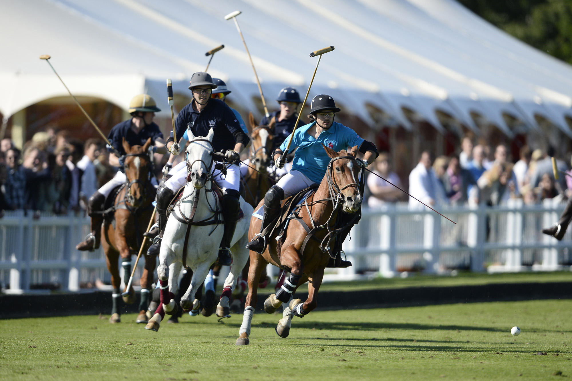 Varsity Polo 2013 Oxford vs Cambridge with Lanto Sheridan playing for Oxford